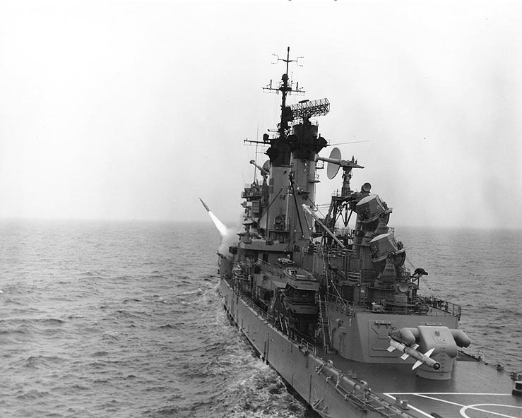 The U.S. Navy guided missile cruiser USS Columbus (CG-12) fires a RIM-24 Tartar guided missile. Note the single RIM-8 Talos missile on the ship's after launcher, and the variety of radar antennas pointed to port. This photograph was received by the Naval Photographic Center on 5 October 1965.